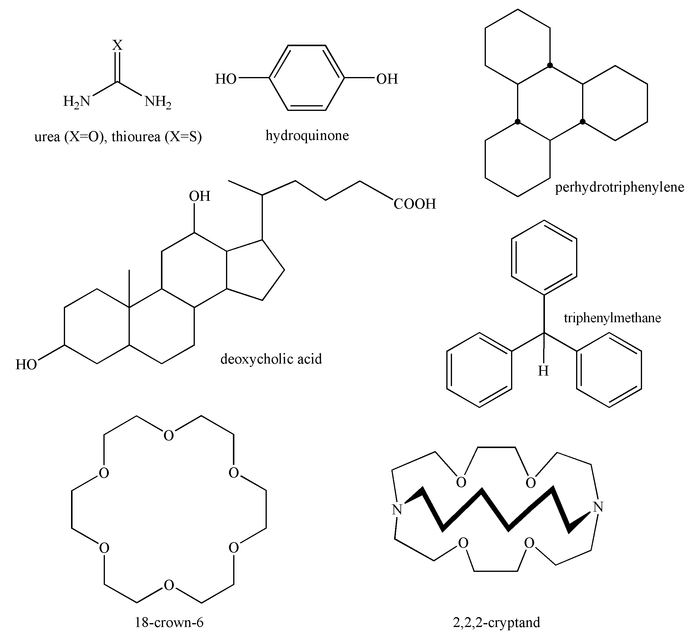 Examples of chemical structures of clathrate compounds